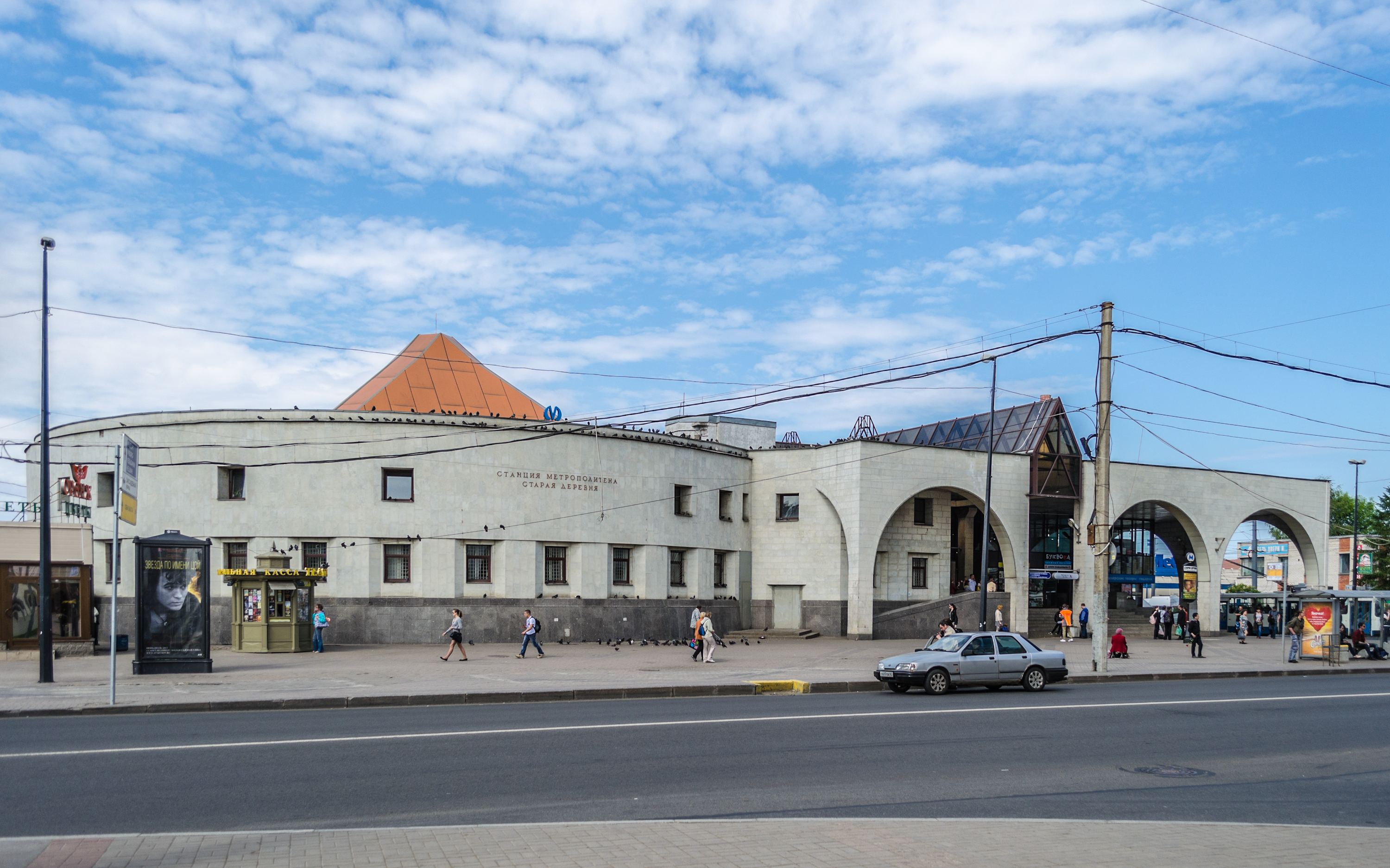 Staraya Derevnya station of Saint Petersburg Subway, pavilion